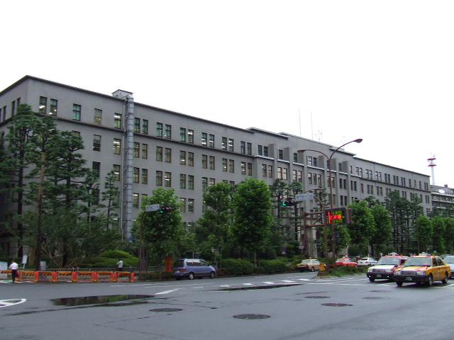 Building of Ministry of Finance,Chiyoda,Tokyo,Japan 財務省（旧・大蔵省）舎東京都千代田区にて撮影